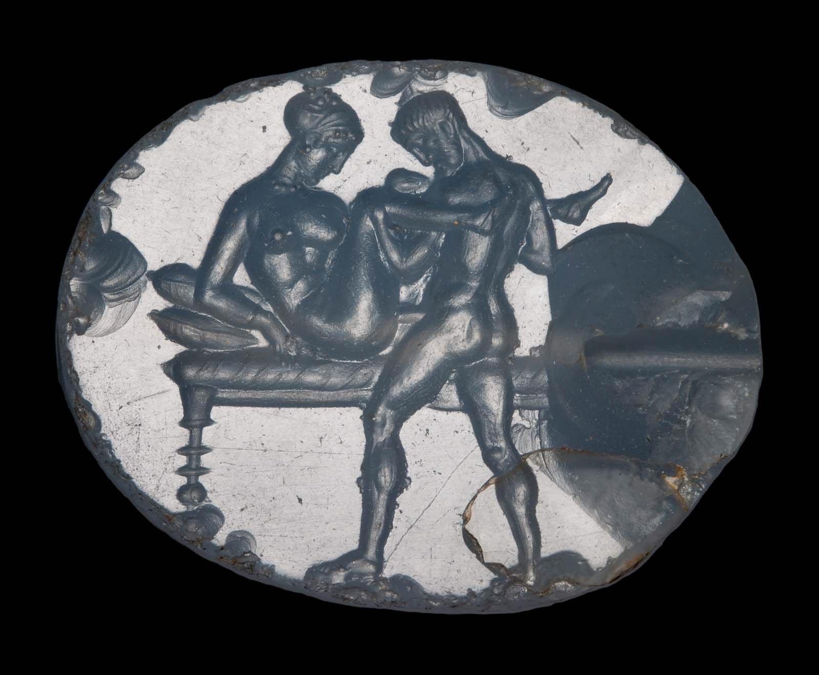 Intaglio. Pierced for stringing (horizontal). Motif oriented horizontally. A woman, seated on a cushioned bed, has intercourse with a male partner. Her face and legs are seen in profile, while her torso is twisted toward the viewer in a viewpoint somewhere between three-quarters and frontal. The woman wears a beaded necklace, a bracelet on her right arm, earrings, and thin slippers. Her hair is bound up in a scarf, with a few locks of hair escaping at her forehead and crown. She has a long nose, and heavy chin. Though seated on a bed, she holds her torso off of the bed with her arms; she may be rested her left elbow on one of the two pillows/cushions visible at the left edge of the bed. Her partner stands before the bed, and grabs her raised legs at the knees. He is bearded, and has short hair rendered by short striations. Like the woman, his face is rendered in profile, while his body is seen in three-quarter view from the back. Only one leg of the bed is visible at the left, the artist having omitted the back left leg; the right leg(s) is missing due to a large chip. Both figures have their gaze pointed down. Significant chip around right perforation.